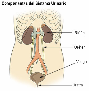 Translation of the same image that could be seen in the English Wikipedia.